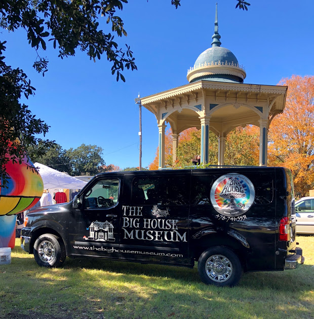 Skydog14-Central City Park in Macon, Ga.